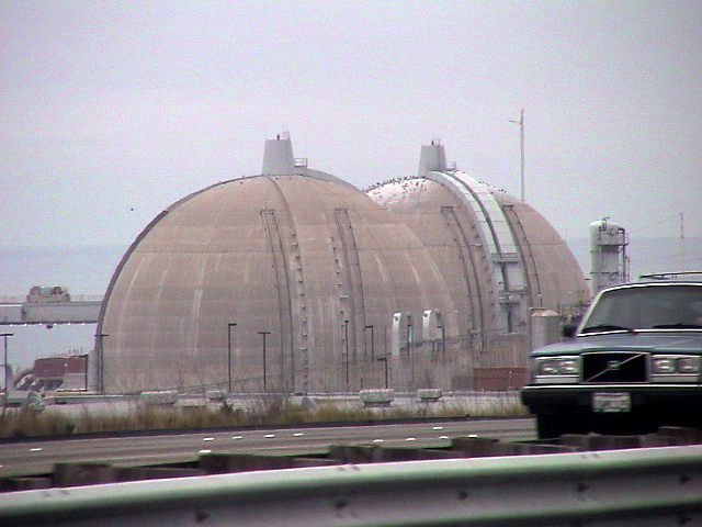 San Onofre Nuclear Generating Station as seen from Interstate 5 northbound, December 30, 2001.